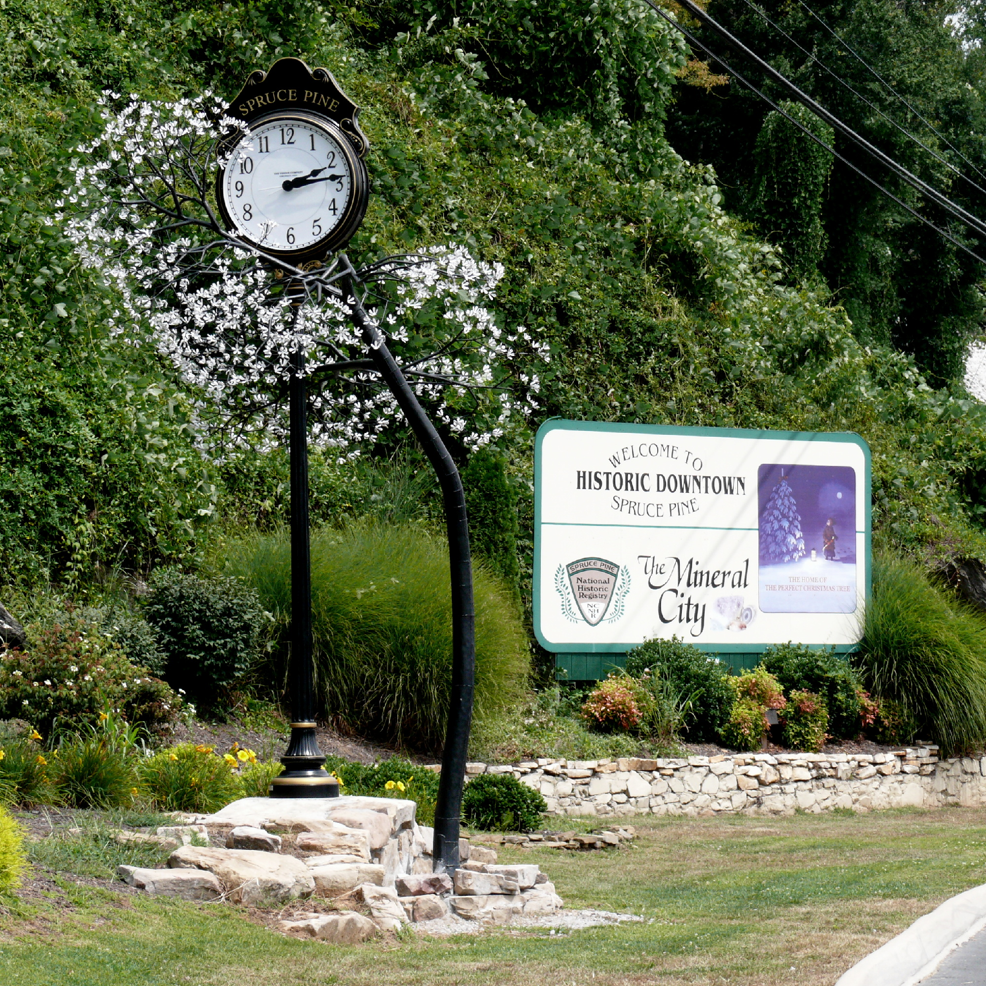 An ornamental clock and sign welcome visitors to historic downtown Spruce Pine. Photo taken with a Panasonic Lumix DMC-FZ50 in Mitchell County, NC, USA.